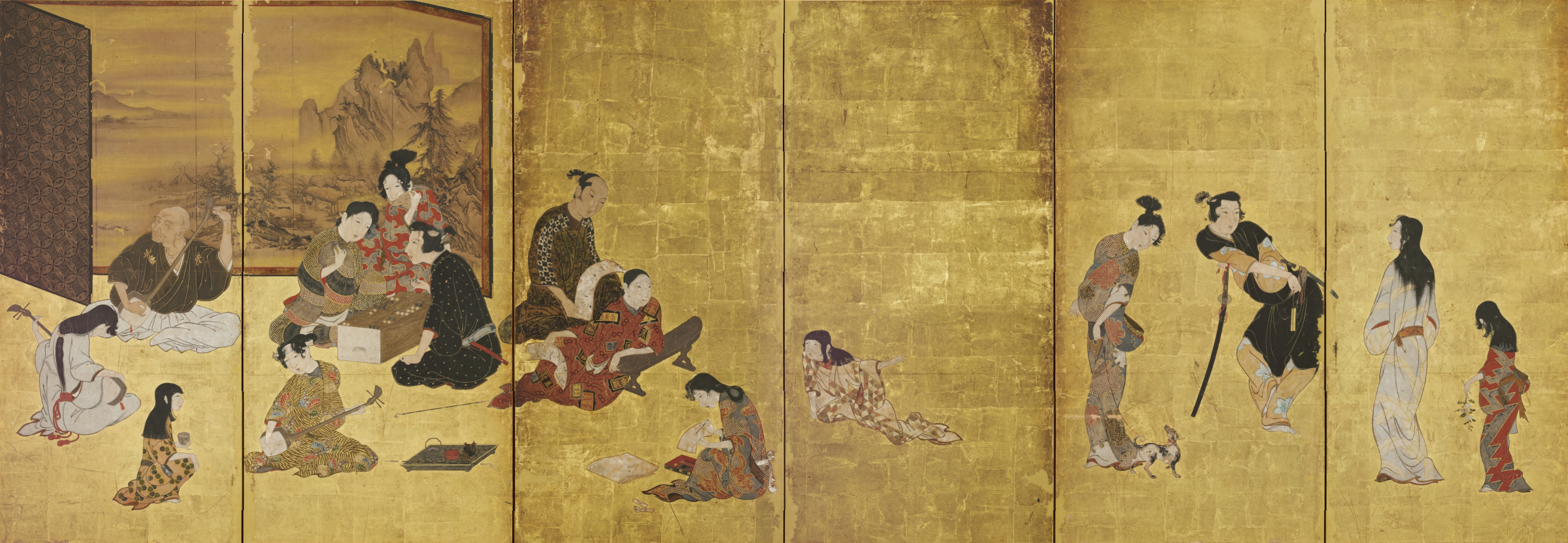 Genre scene (紙本金地著色風俗図, shihonkinjichoshoku fūzokuzu) or Hikone Screen (彦根屏風, hikone byōbu). Six-section folding screen (byōbu), 94.5 cm x 278.8 cm. Color on paper with gold leaf background. Formerly held by the Ii family. Located at the Hikone Castle Museum, Hikone, Shiga, Japan. The screen has been designated as National Treasure of Japan in the category paintings.